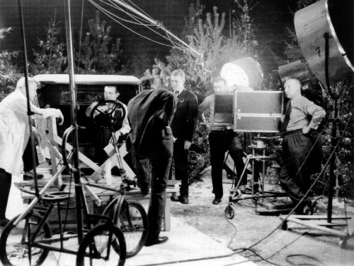 Shooting of film Vaimoke in Suomi-Film studios. Behind the wheel Tauno Palo. Third from left director Valentin Vaala.